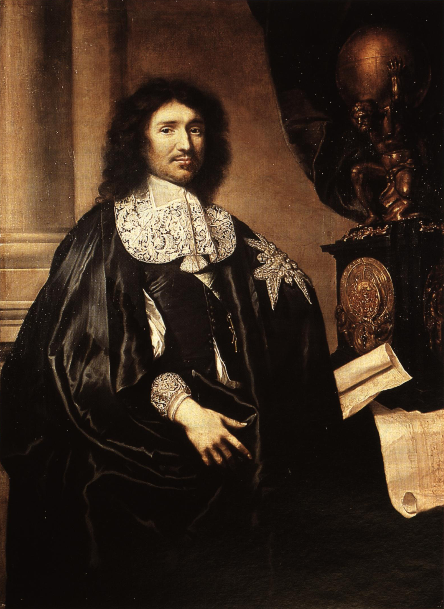 Portrait of Jean-Baptiste Colbert, by Claude Lefebvre, oil, 1.38 x 1.13 m. In 1663. Louvre Museum, Paris, France. Cliché: National Museums, Paris